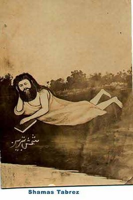 Shams Tabrizi